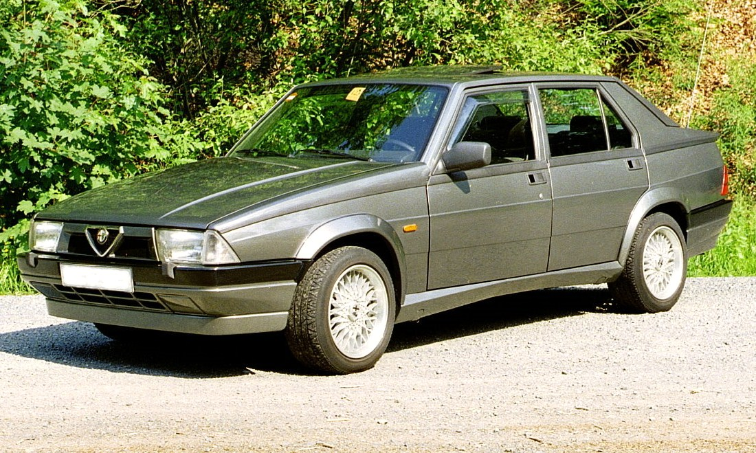 Alfa 75